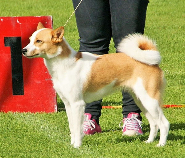 A Norrbotten Spitz. Colour: red & white.